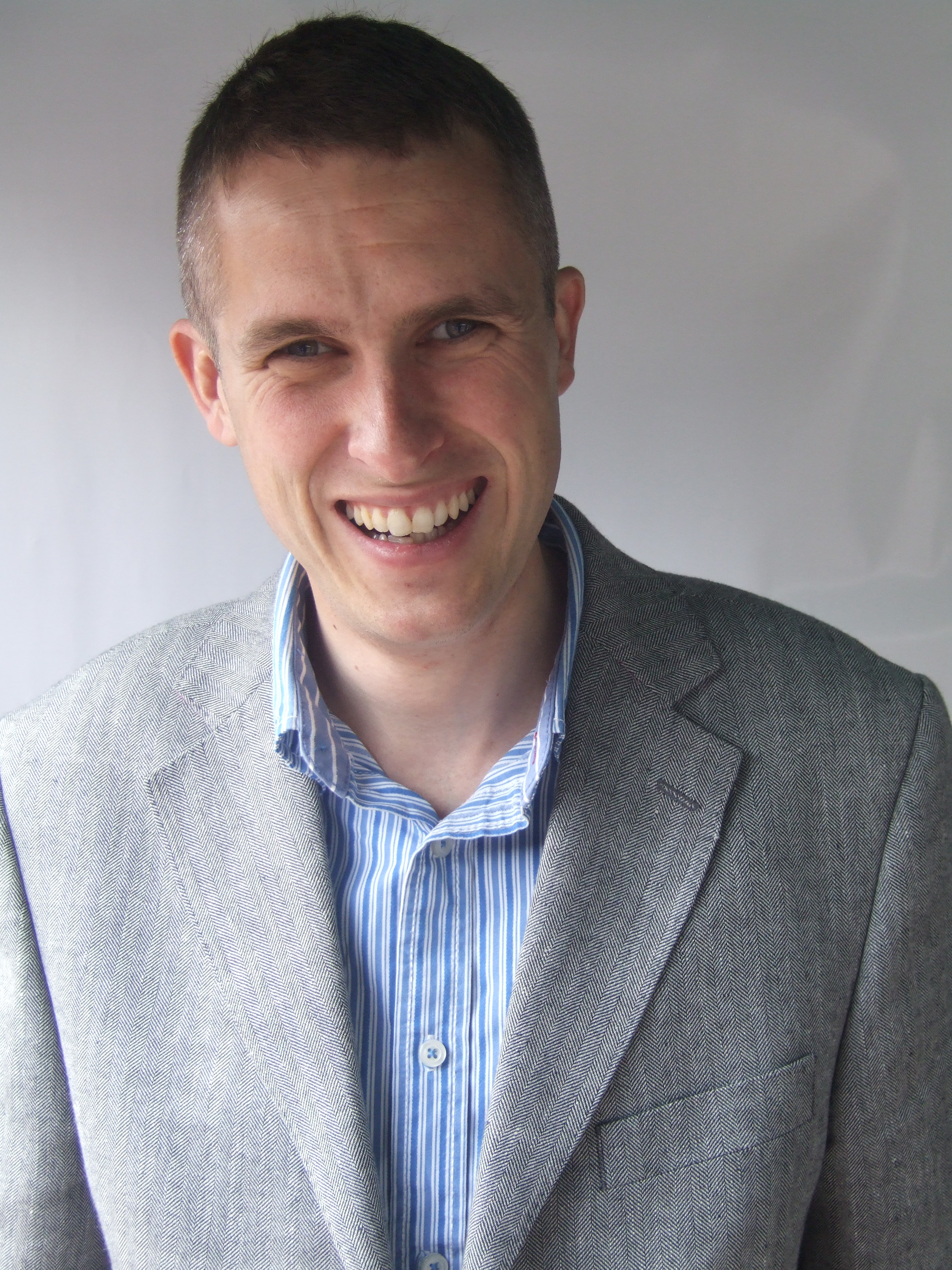 Gavin Williamson at Kinver Country Fayre, 2010.